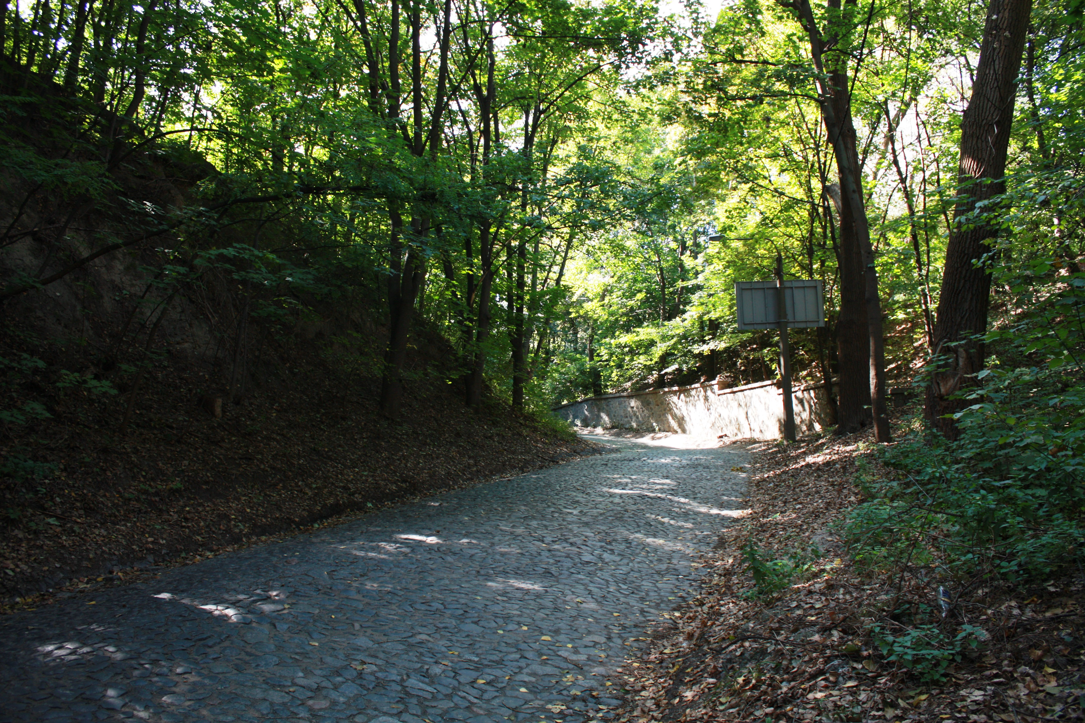 Smorodynskiy uzviz in Kiev, Ukraine